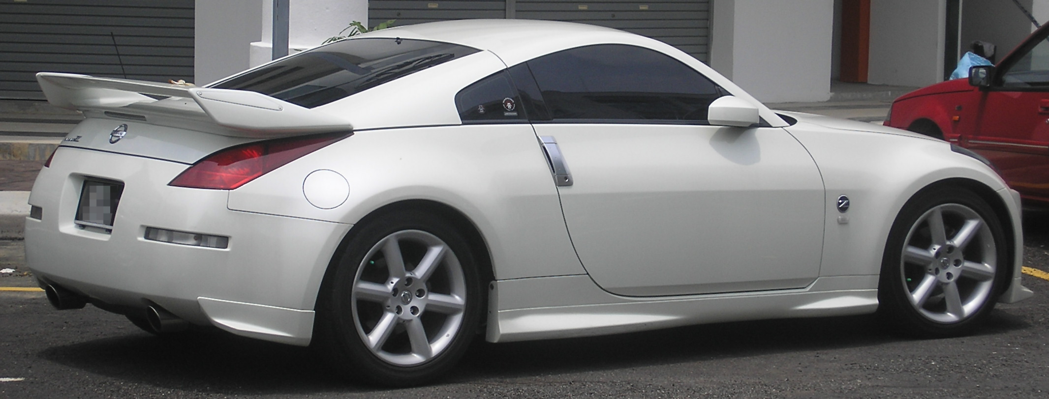 Rear quarter view of a first generation Nissan 350Z (with skirts), in Serdang, Selangor, Malaysia.